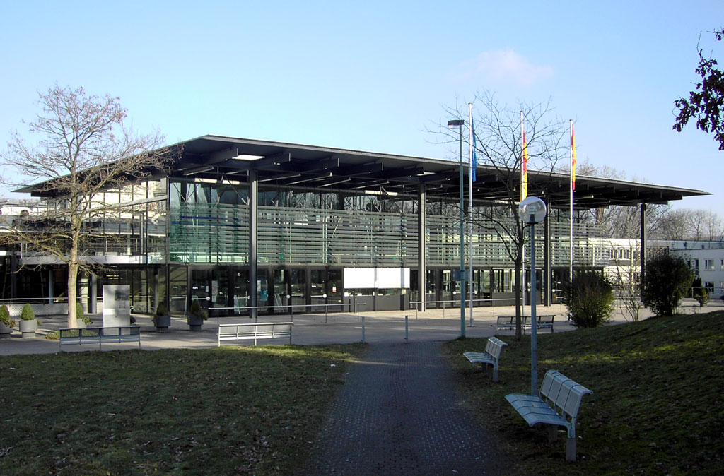 Plenary chamber of the German Bundestag in Bonn. Used October 1992 till July 1999.